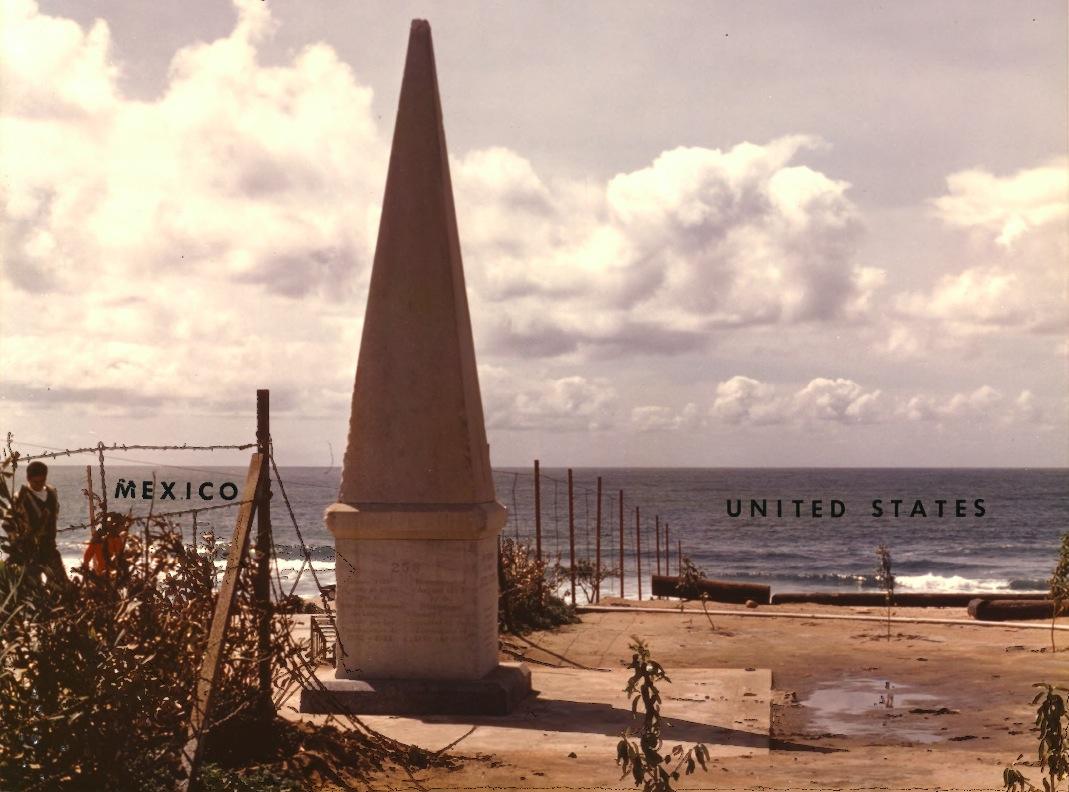 Monument marking the Initial Point of Boundary Between U.S. and Mexico (1973 photo)